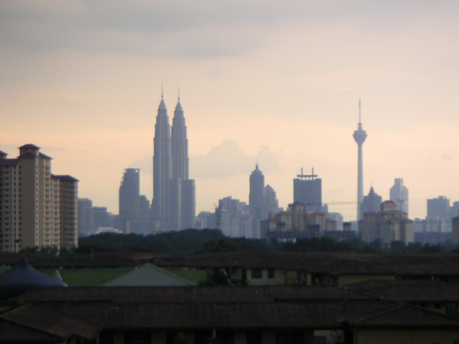 Kuala Lumpur Skyline: this old photo has been doing the rounds in me blog. wish i could have used a better camera for zoom and resolution.